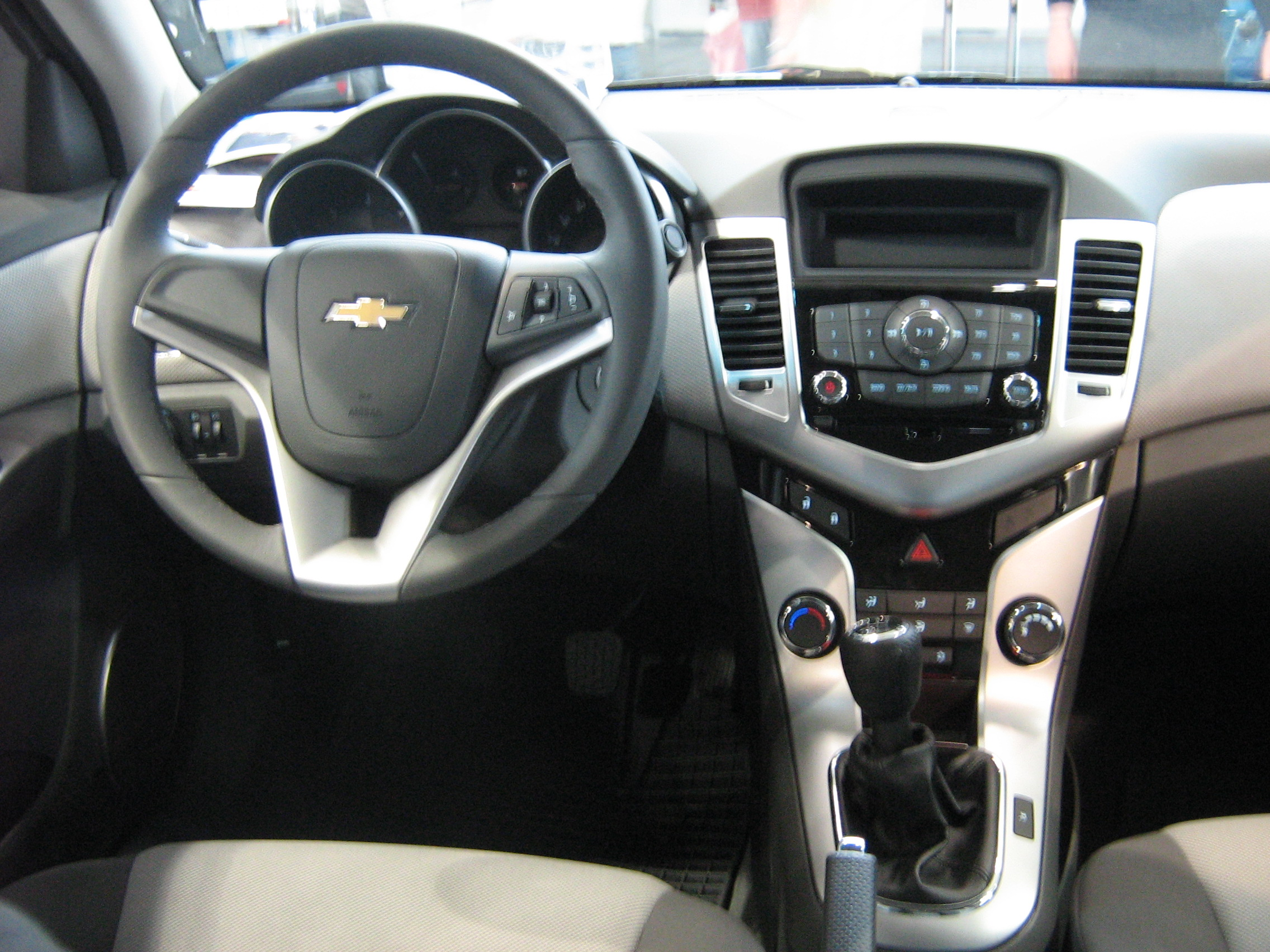 Chevrolet Cruze - PSM 2009 in Poznan.